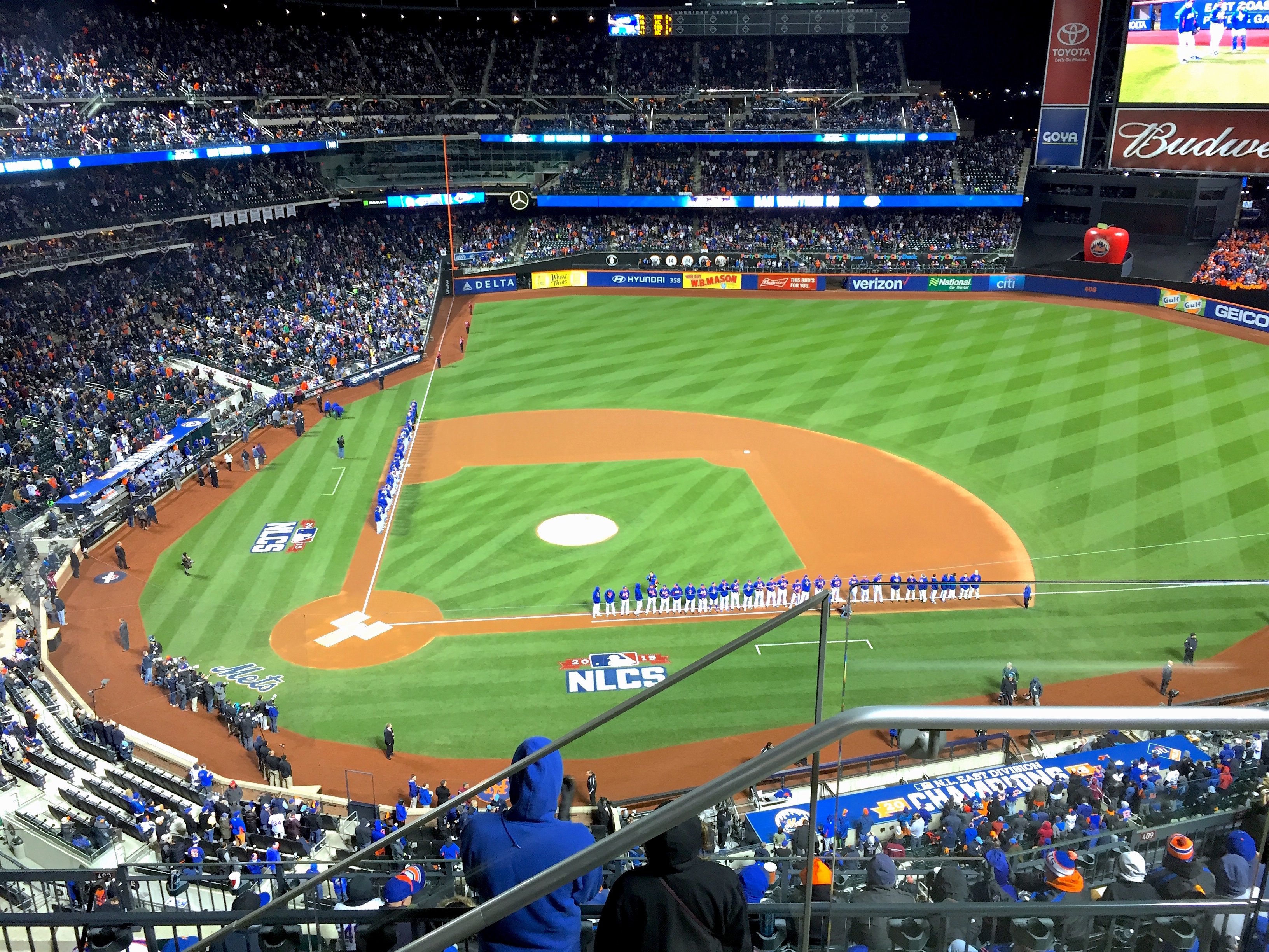 The New York Mets and Chicago Cubs are introduced before Game 1 of the 2015 National League Championship Series at Citi Field.